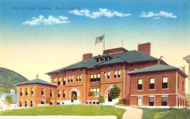 Berlin High School, Berlin, NH; from a c. 1914 postcard.